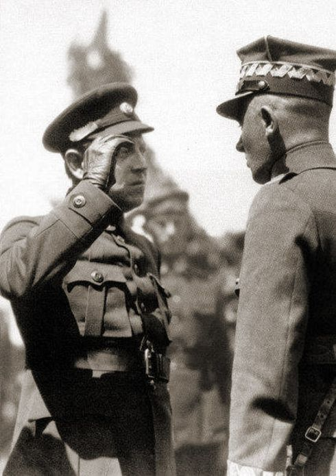 Symon Petlura and Edward Śmigły-Rydz. Kiev, railway station, May 1920. Polish-Soviet war.